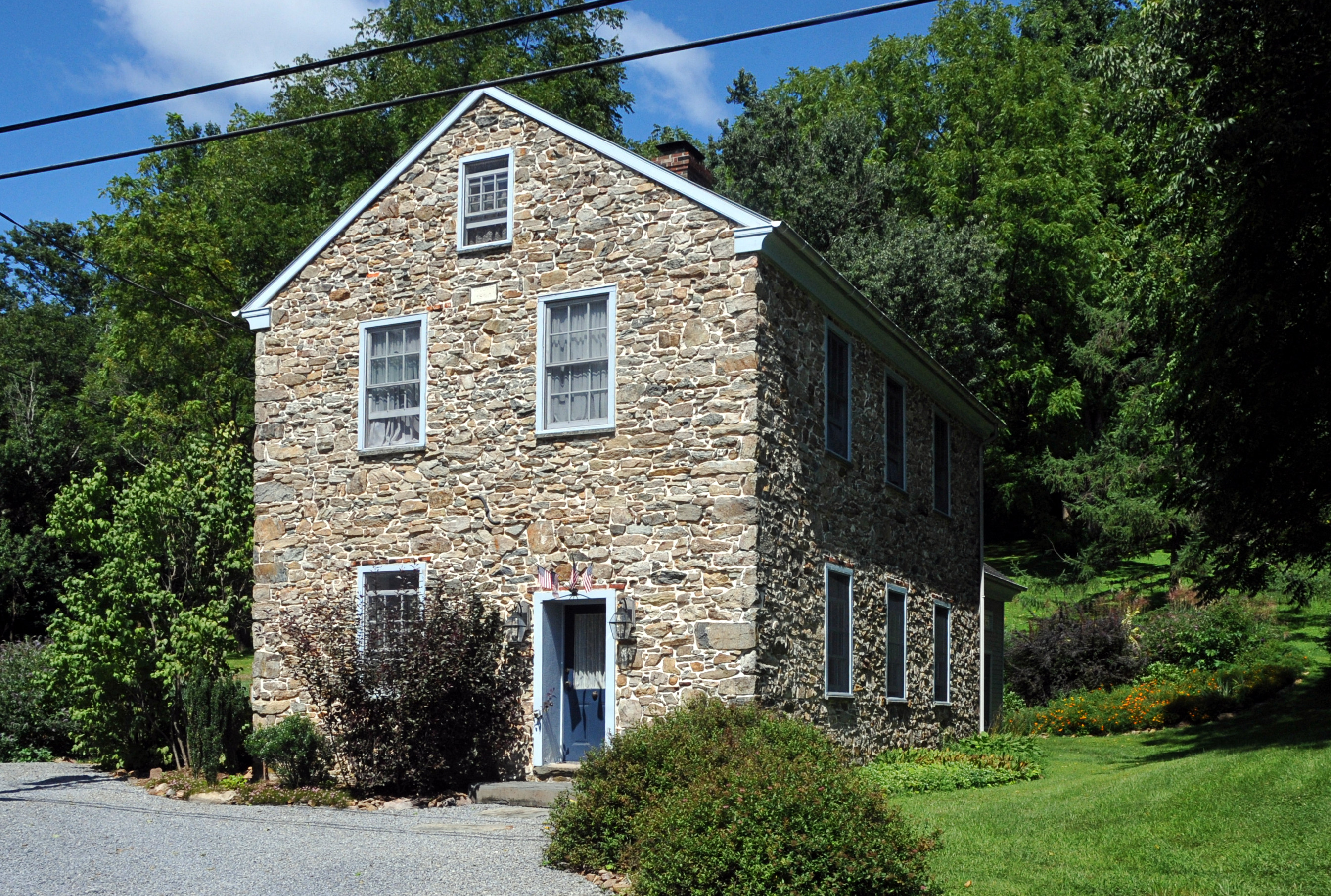 SETTLED CIRCA 1750 BY PIONEER TENANT FARMERS AND DEVELOPED BY THE MID 1800’S INTO A HAMLET FEATURING A GENERAL STORE, BLACKSMITHY, AND SHOE MAKER’S SHOP. THE HOUSE IN THIS PICTURE IS CIRCA 1864